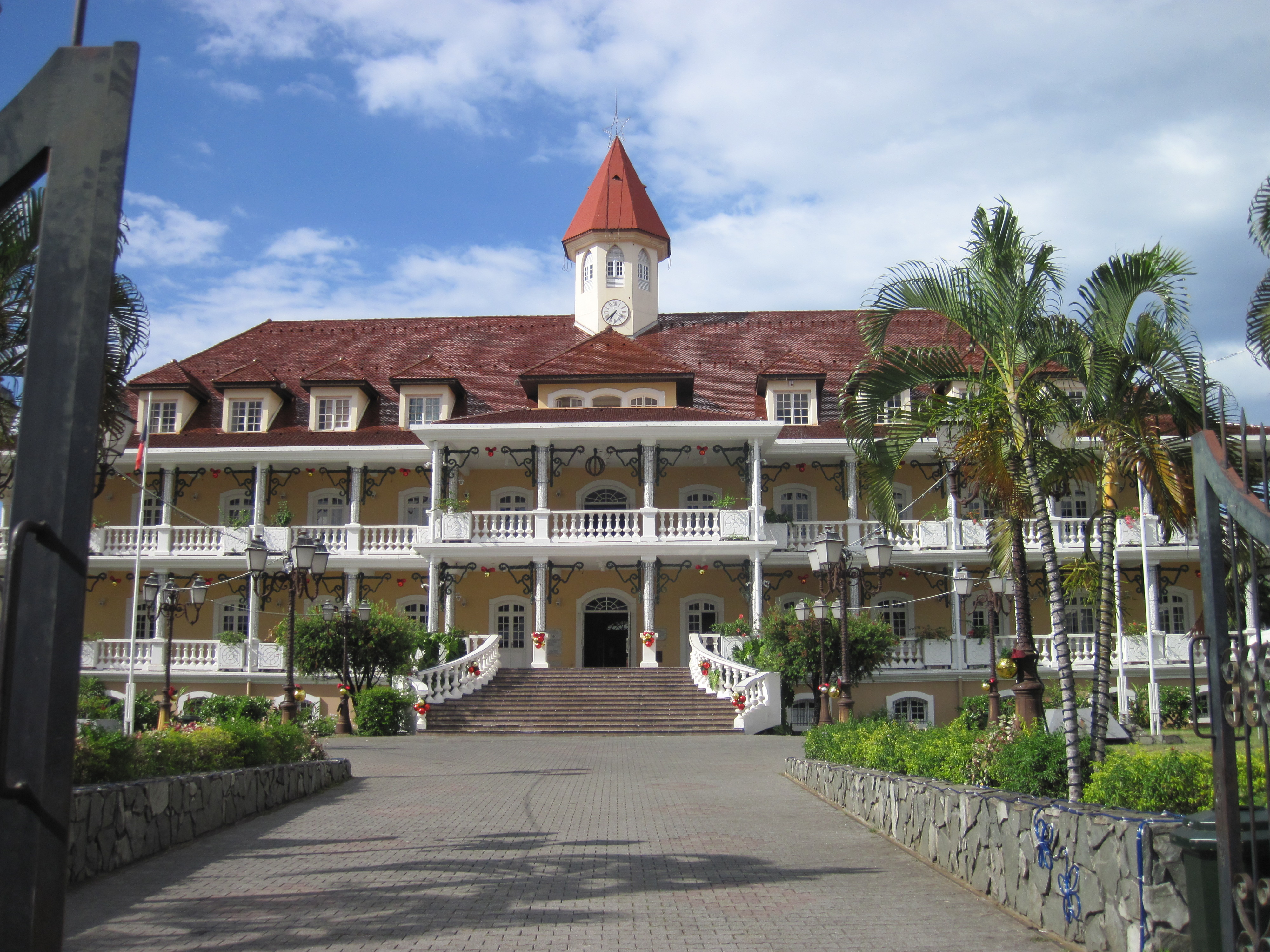 Papeete Town Hall, Papeete, Tahiti, 2009. A 1990 replica of the Royal Palace of Papeete razed in the 1960s.